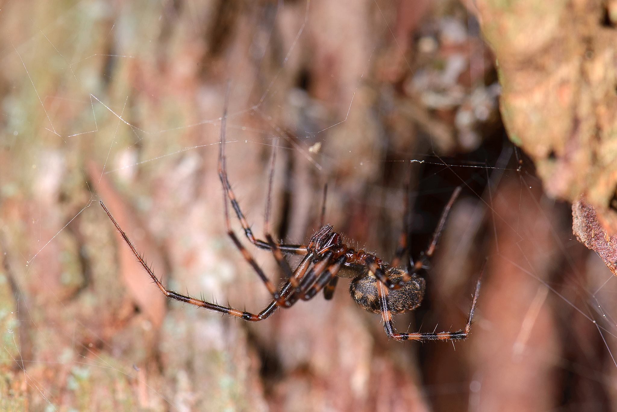 common in webs at night, on large conifers; a species known only from Placer & Yuba counties, CA This media file is part of an observation on iNaturalist: tag does not indicate the copyright status of the attached work. A normal copyright tag is still required. See Commons:Licensing.